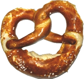 Pretzel